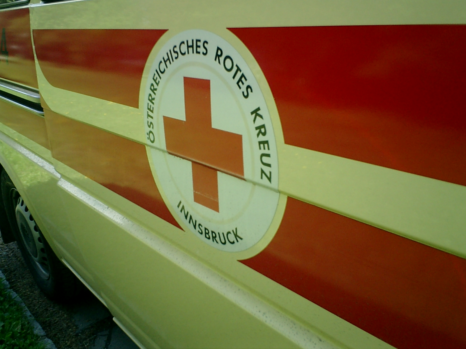 The emblen of the Austrian Red Cross ("Österreichisches Rotes Kreuz") at the side of an ambulance in the city of Innsbruck